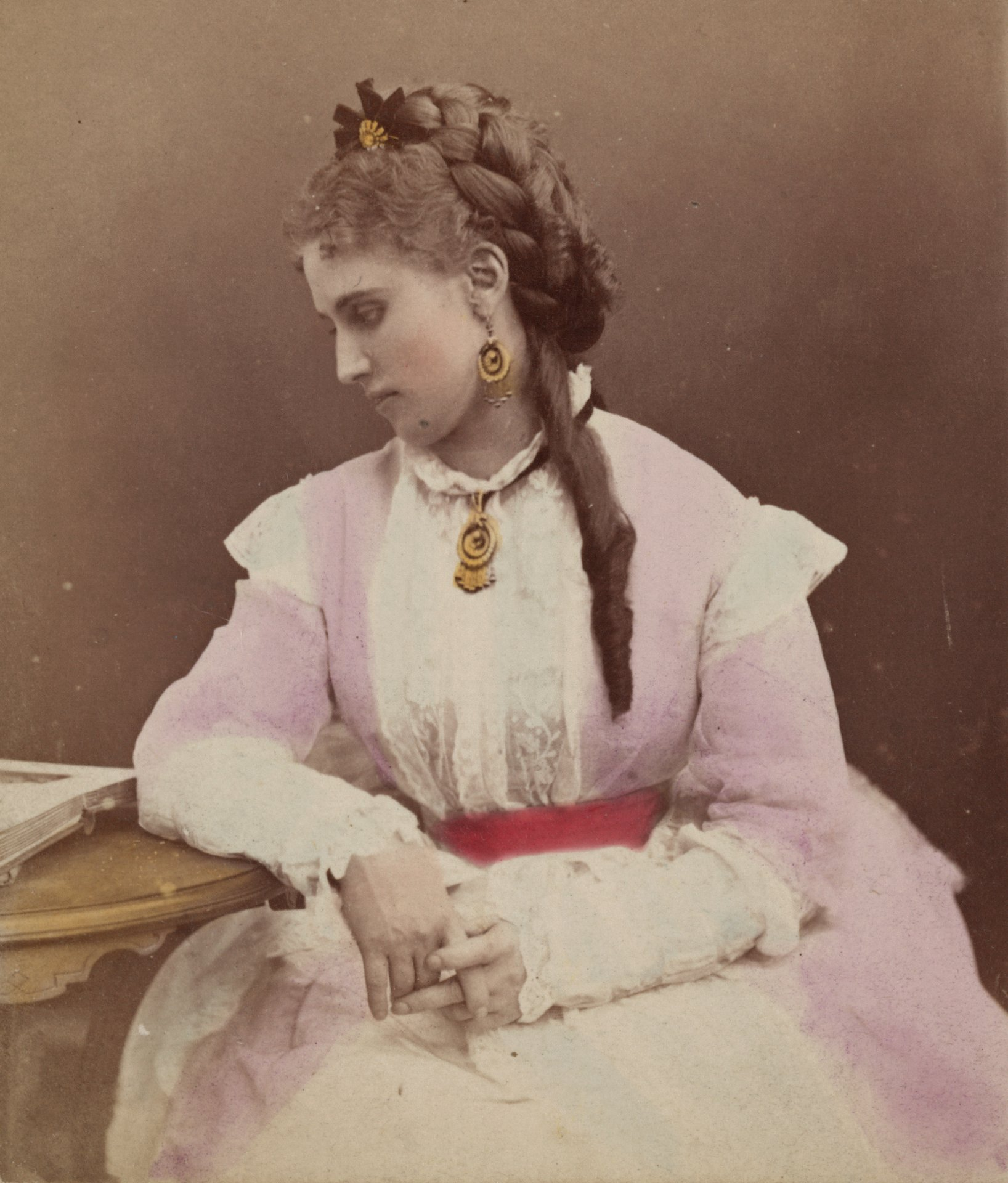 Swedish soprana Christina Nilsson. Picture is the left half of a stereoscope card.